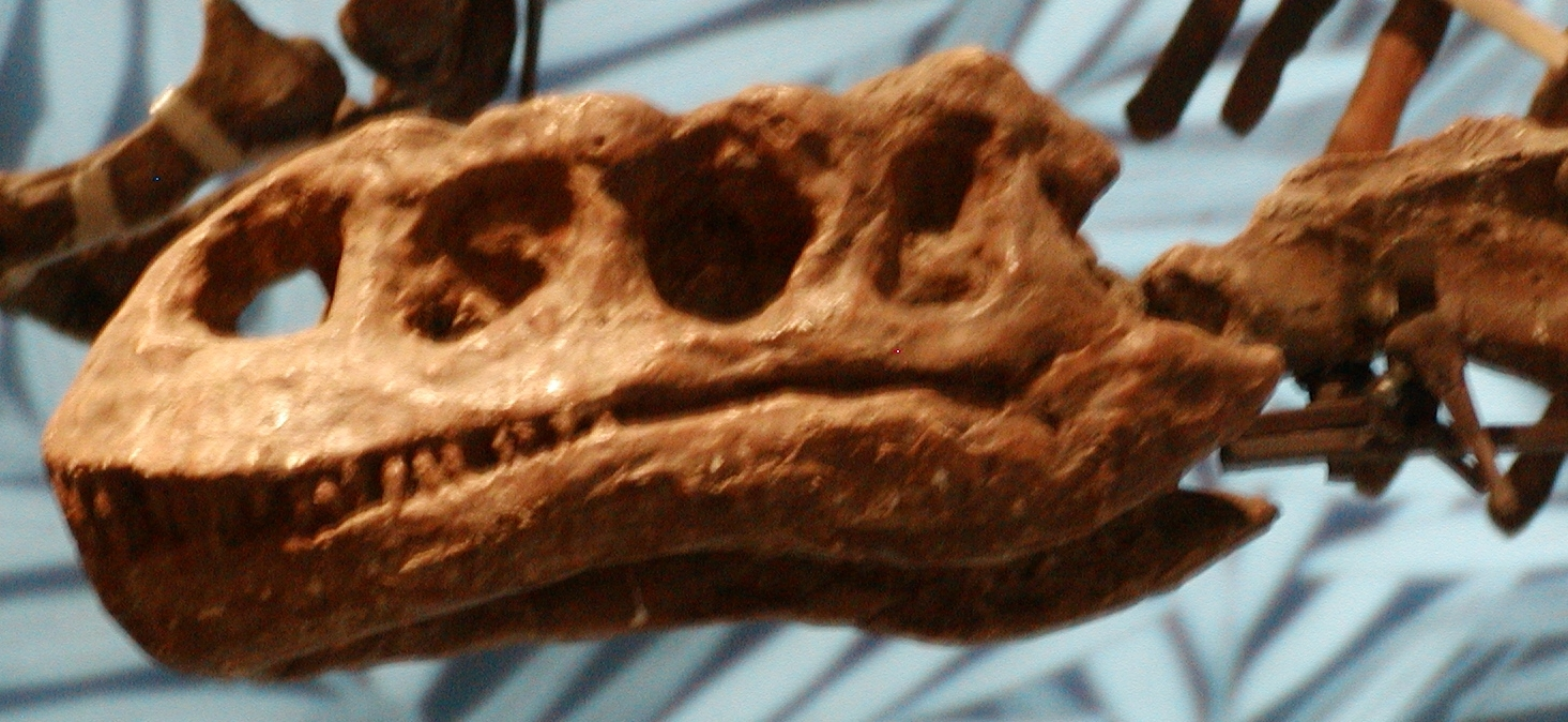 Photo of the skull of Lufengosaurus magnus at the Beijing Museum of Natural History, on tour at the Miami Science Museum.